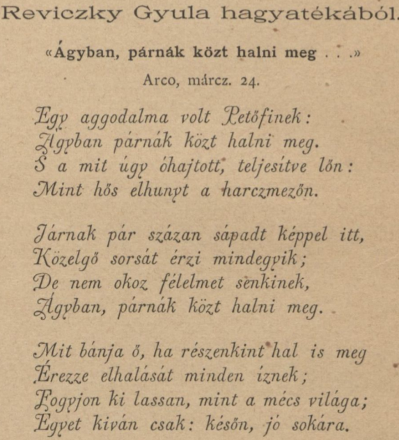 Poem of Reviczky Gyula